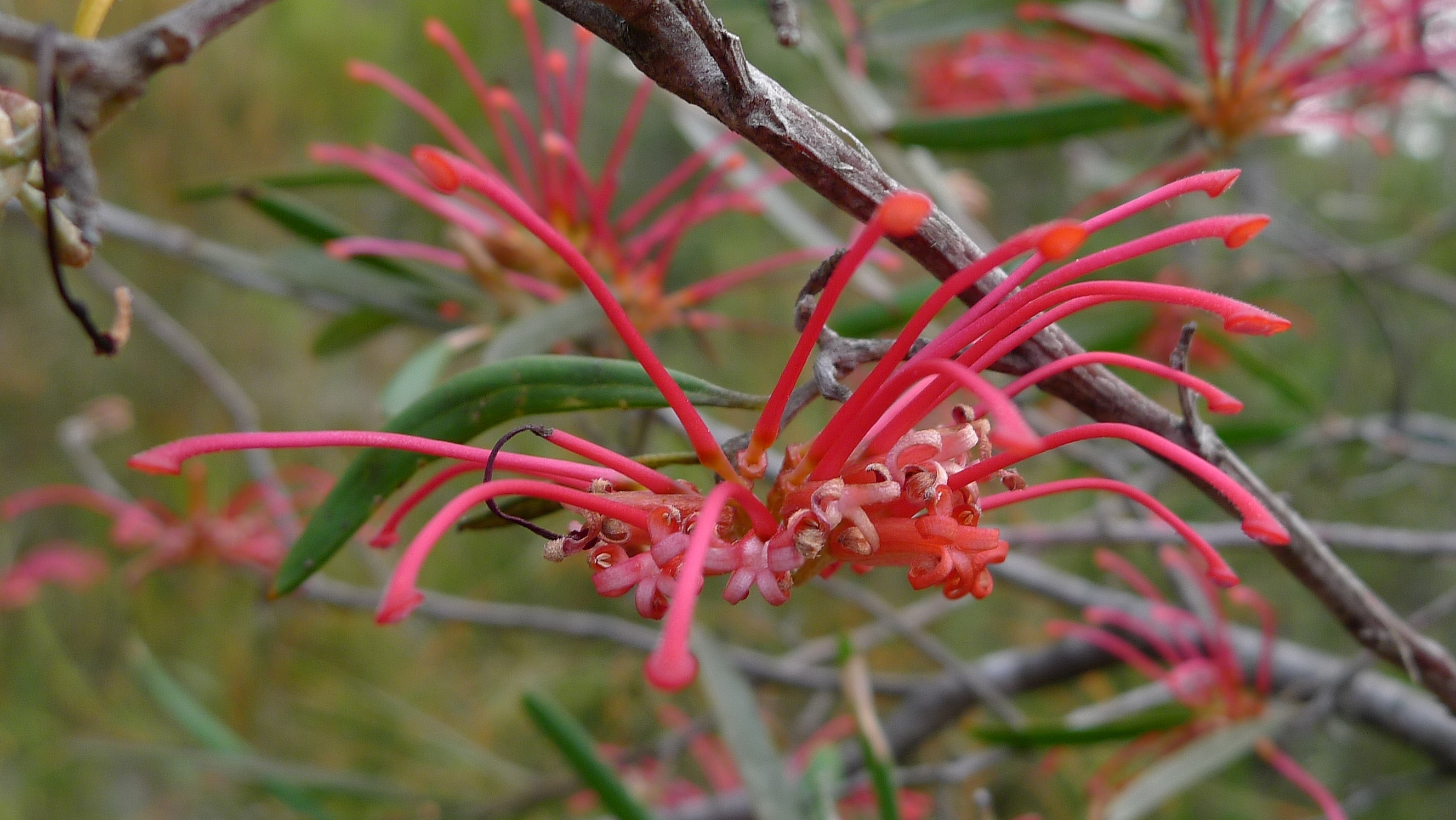 Red Spider Flower, Grevillea oleoides. Heathcote National Park, NSW Australia, August 2013.